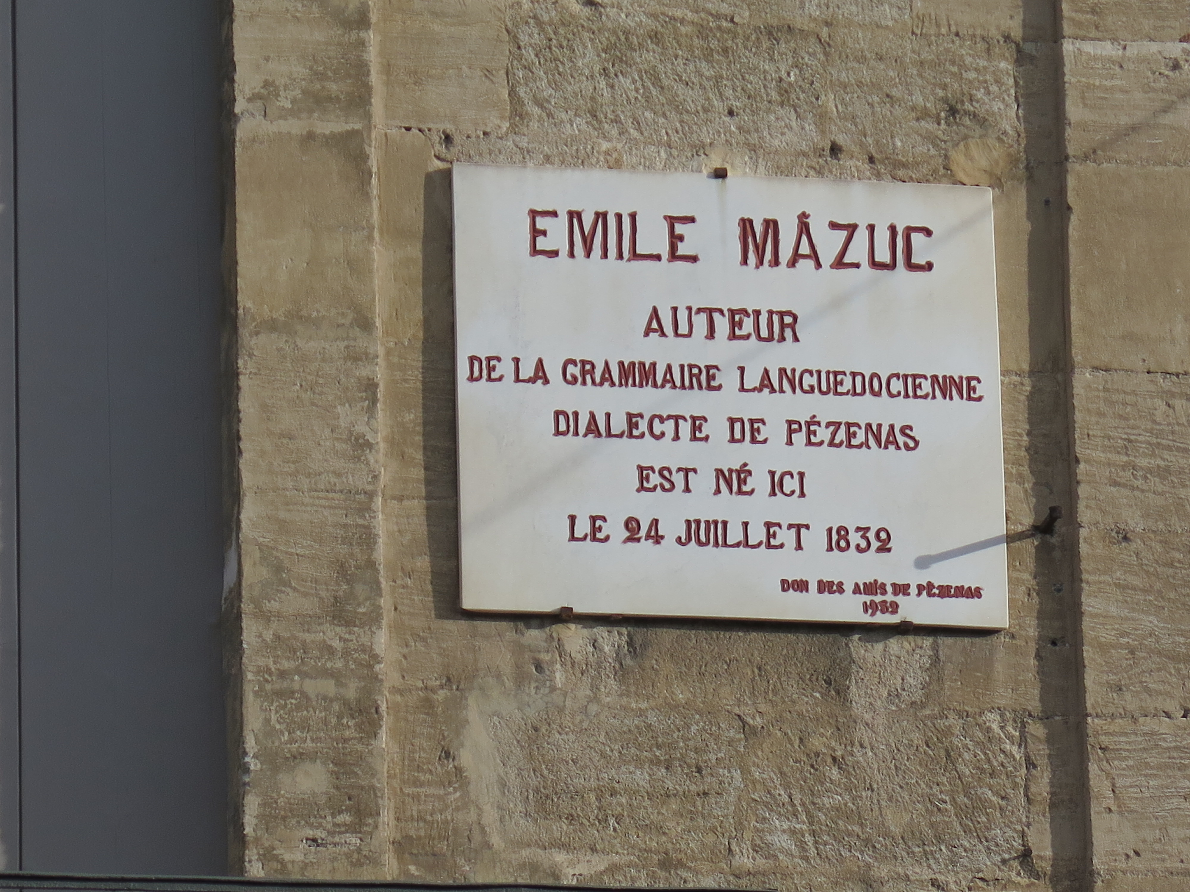 Plate to remind the birth place of Emile Mazuc, in Pézenas (France), 10 cours Jean Jaurès